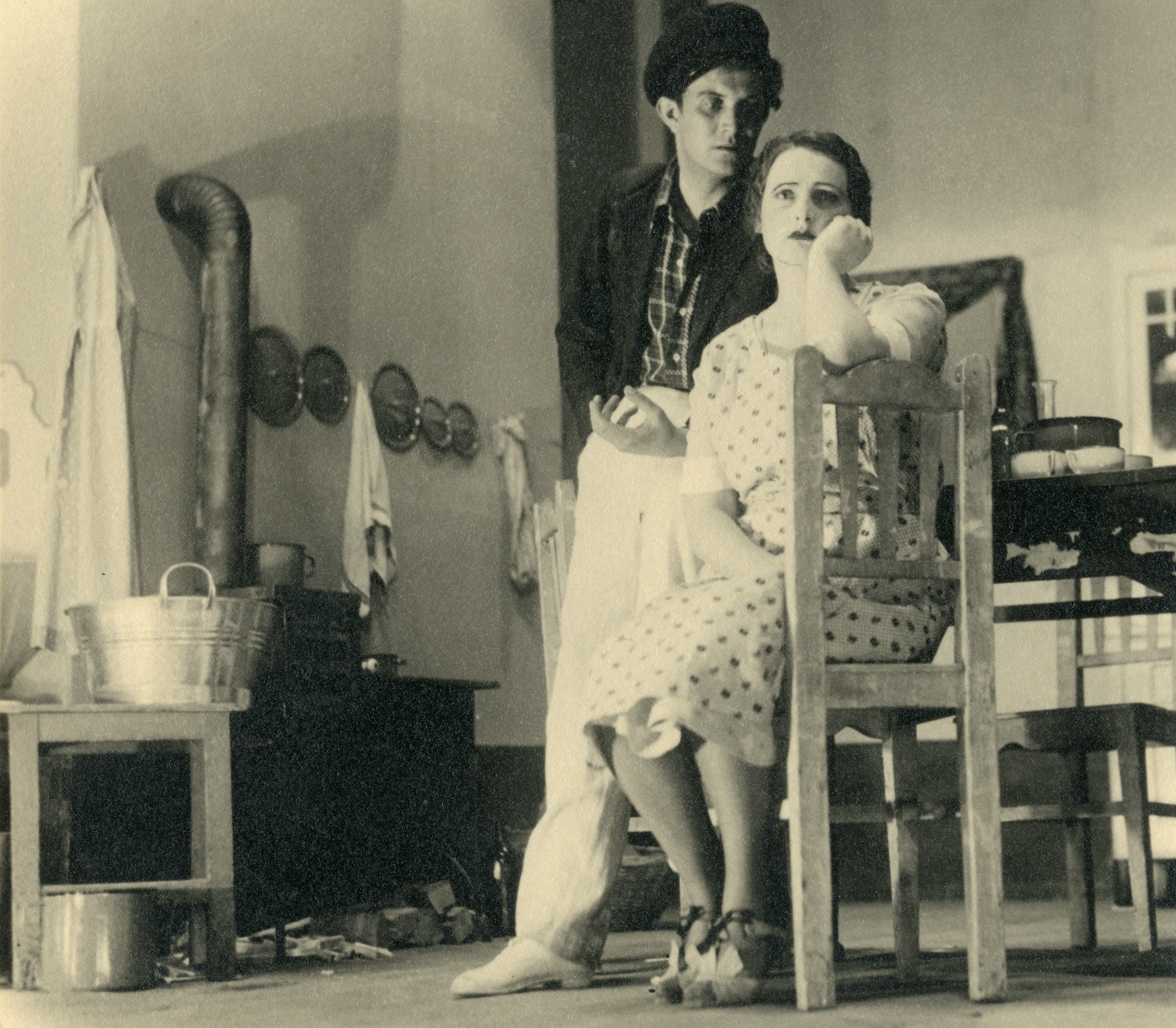 Actress Rahela Ferari in Serbian National Theater, Novi Sad, 1939. Srpski (latinica): Glumica Rahela Ferari u Srpskom narodnom pozorištu, Novi Sad, 1939. Српски (ћирилица): Глумица Рахела Ферари у Српском народном позоришту, Нови Сад, 1939.